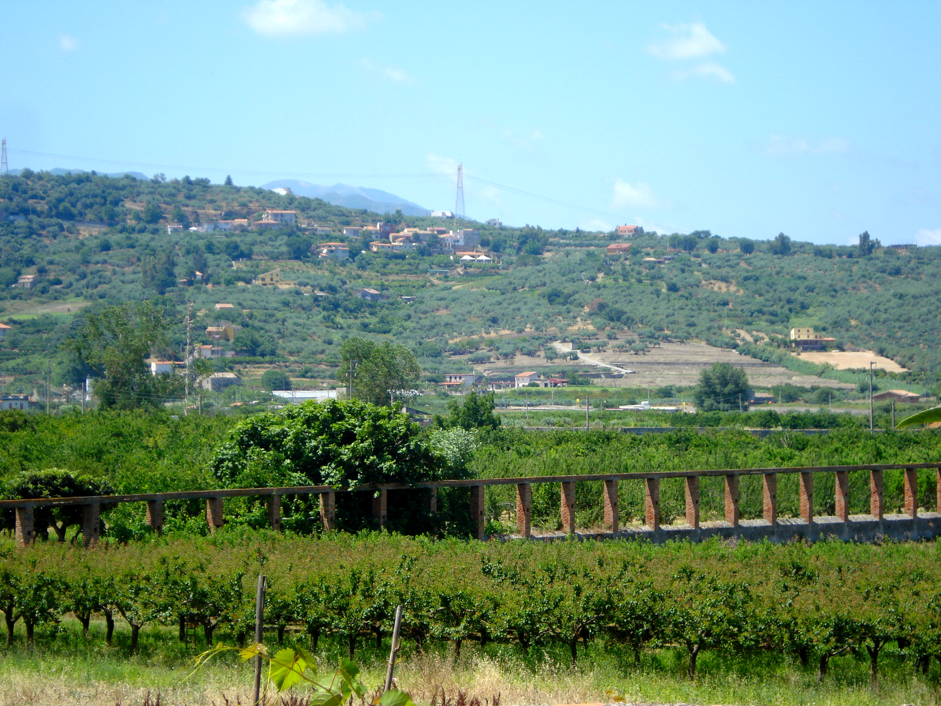 Vineyard and ancient irrigation aqueduct in Torregrotta, Italy.